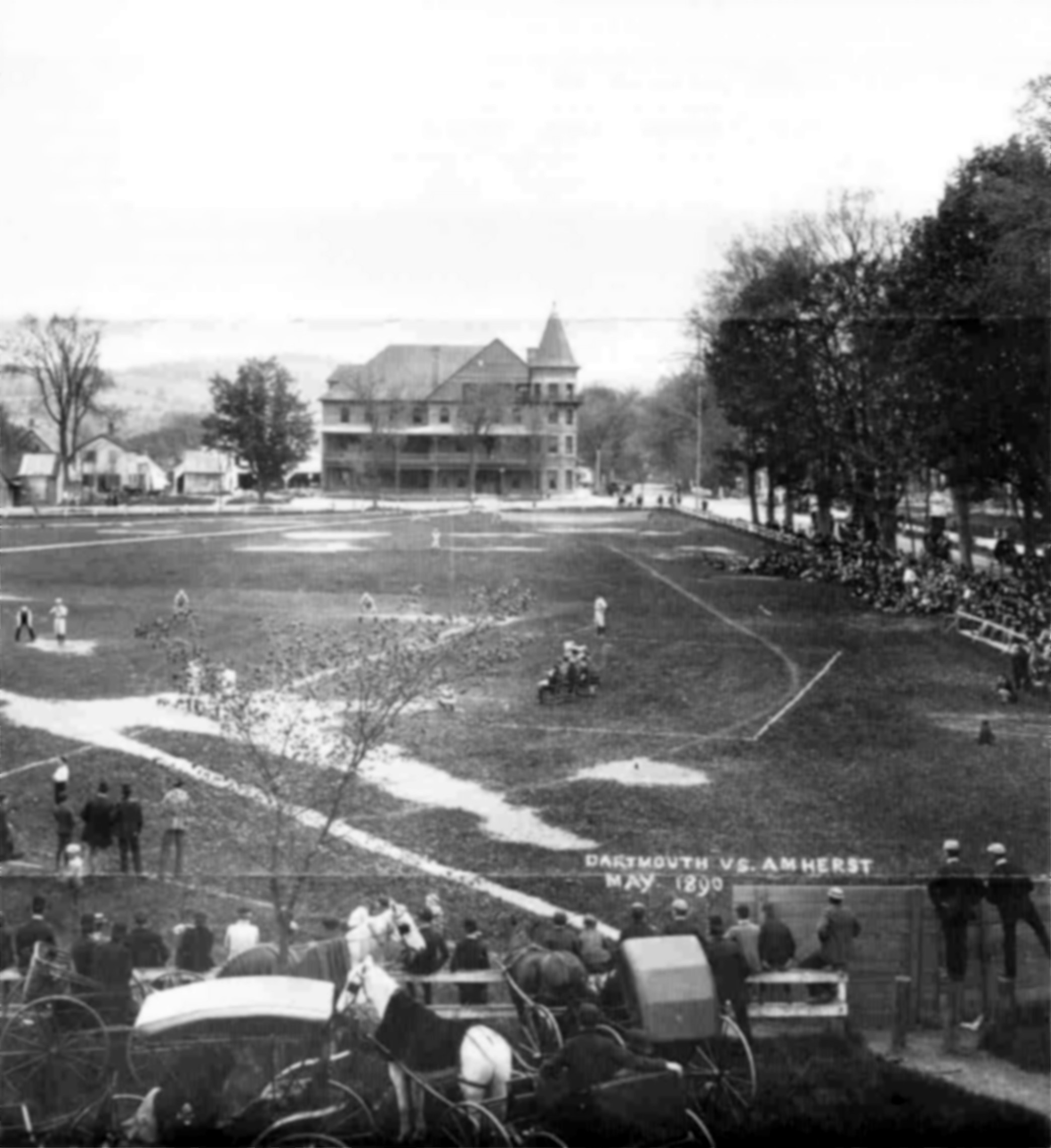 A game of baseball against Amherst College on The Green at Dartmouth College in Hanover, New Hampshire